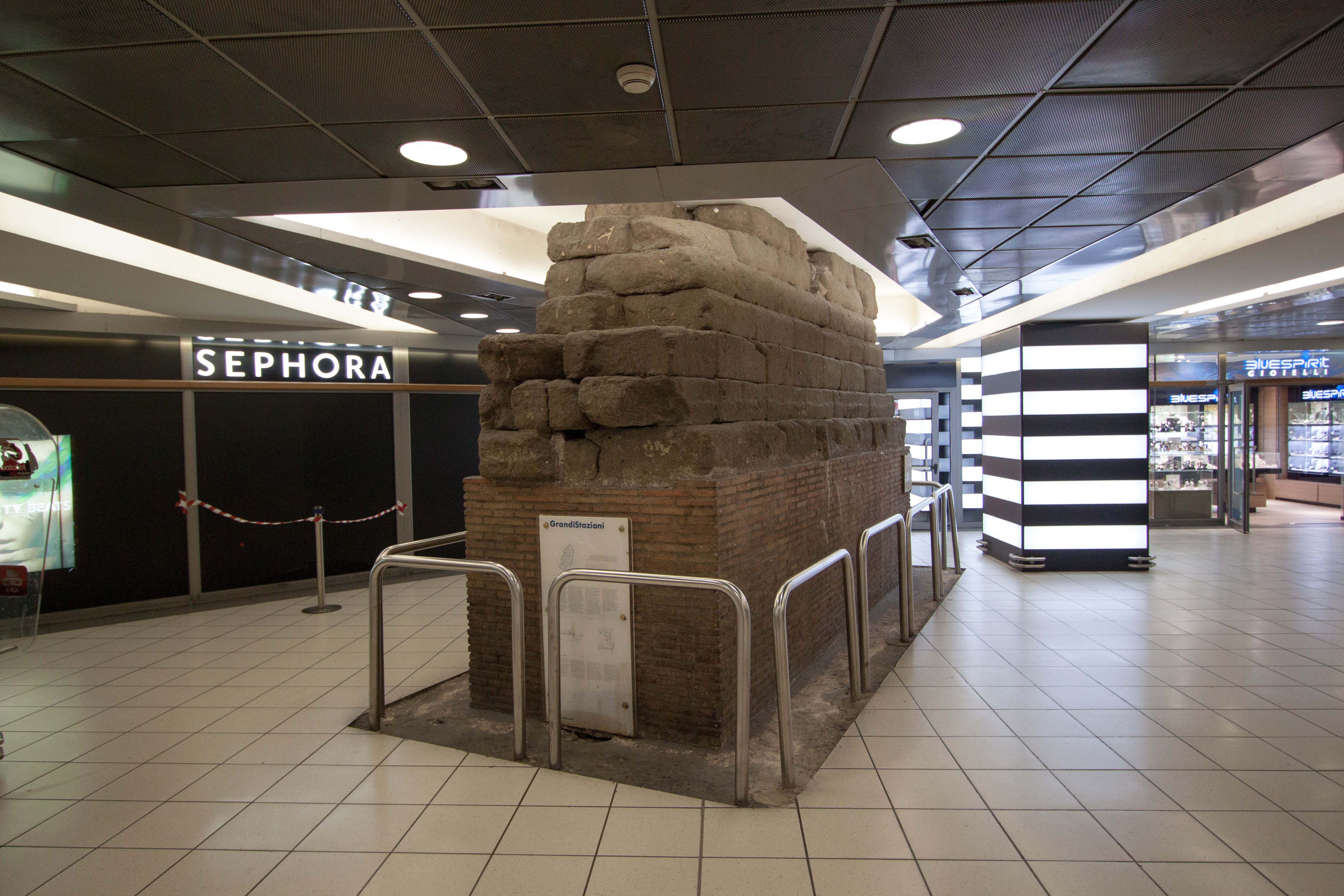 Roma Termini - New passenger building - Interior